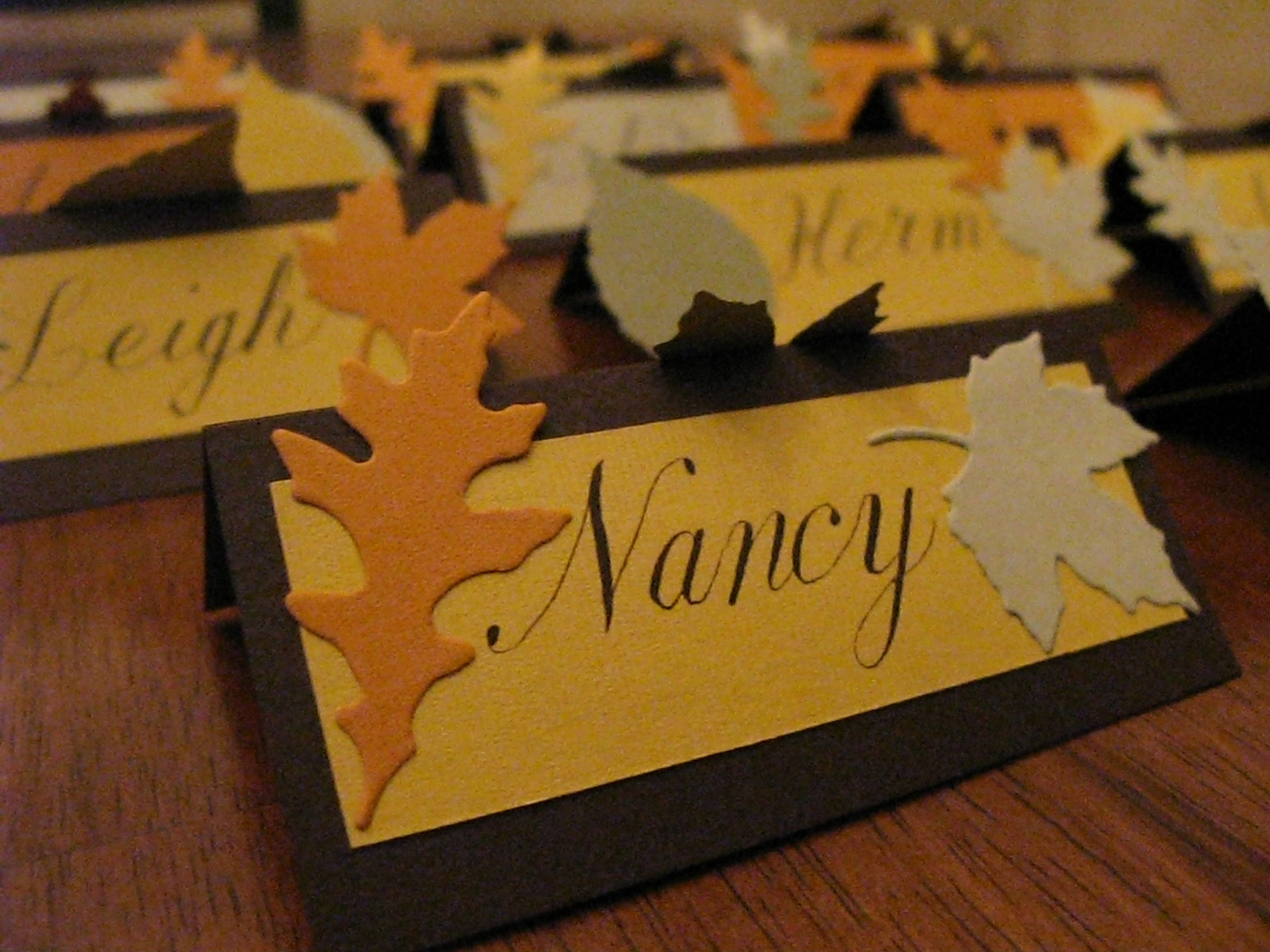 Place cards for Thanksgiving dinner 2008.